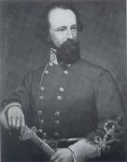 J. Johnston Pettigrew, 1860's Portrait.